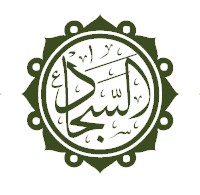 Shite imam